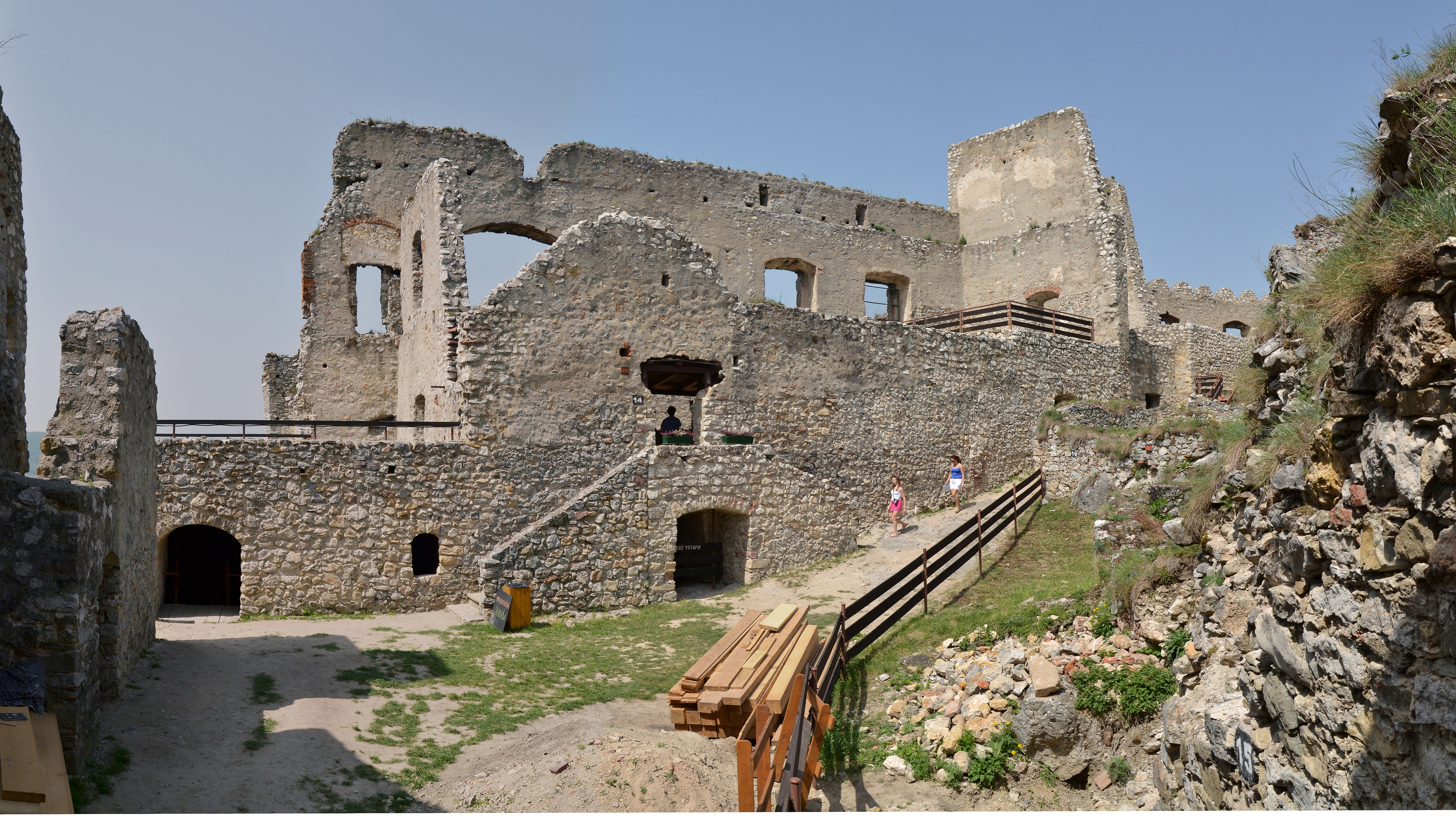 Castle Beckov - ruins of west palace